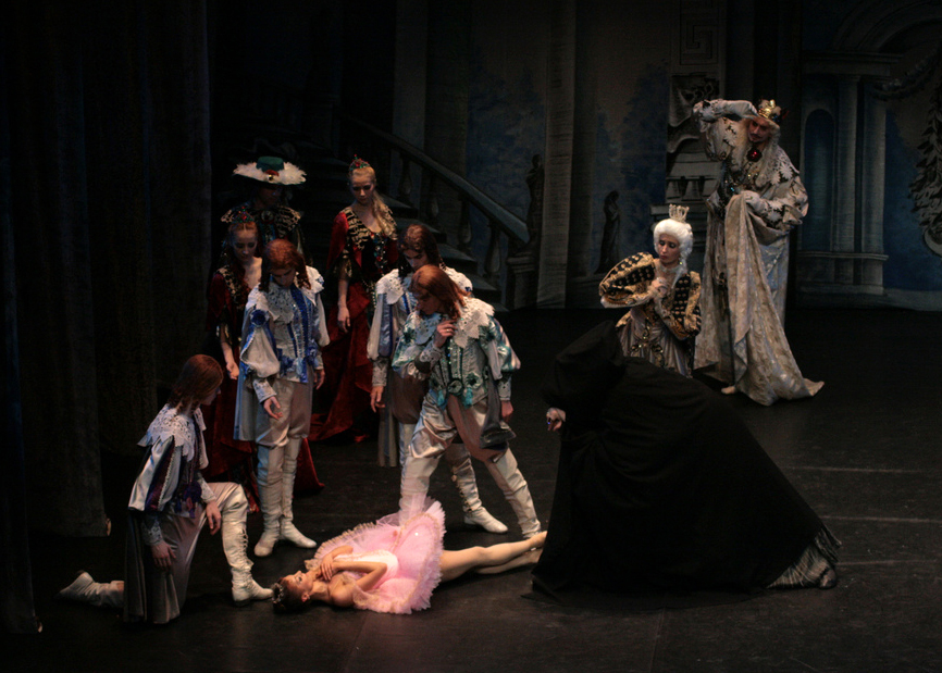 Scene from the first act of the ballet The Sleeping Beauty, performed by the National Ballet of the Kiev Opera (2011). Aurora collapsed after pricking her finger. The cloaked stranger is the wicked fairy Carabosse.